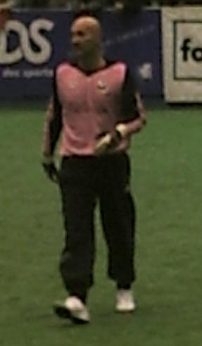 Picture of Fabien Barthez taken at Geneva Indoors Football tournament, 13/01/2009